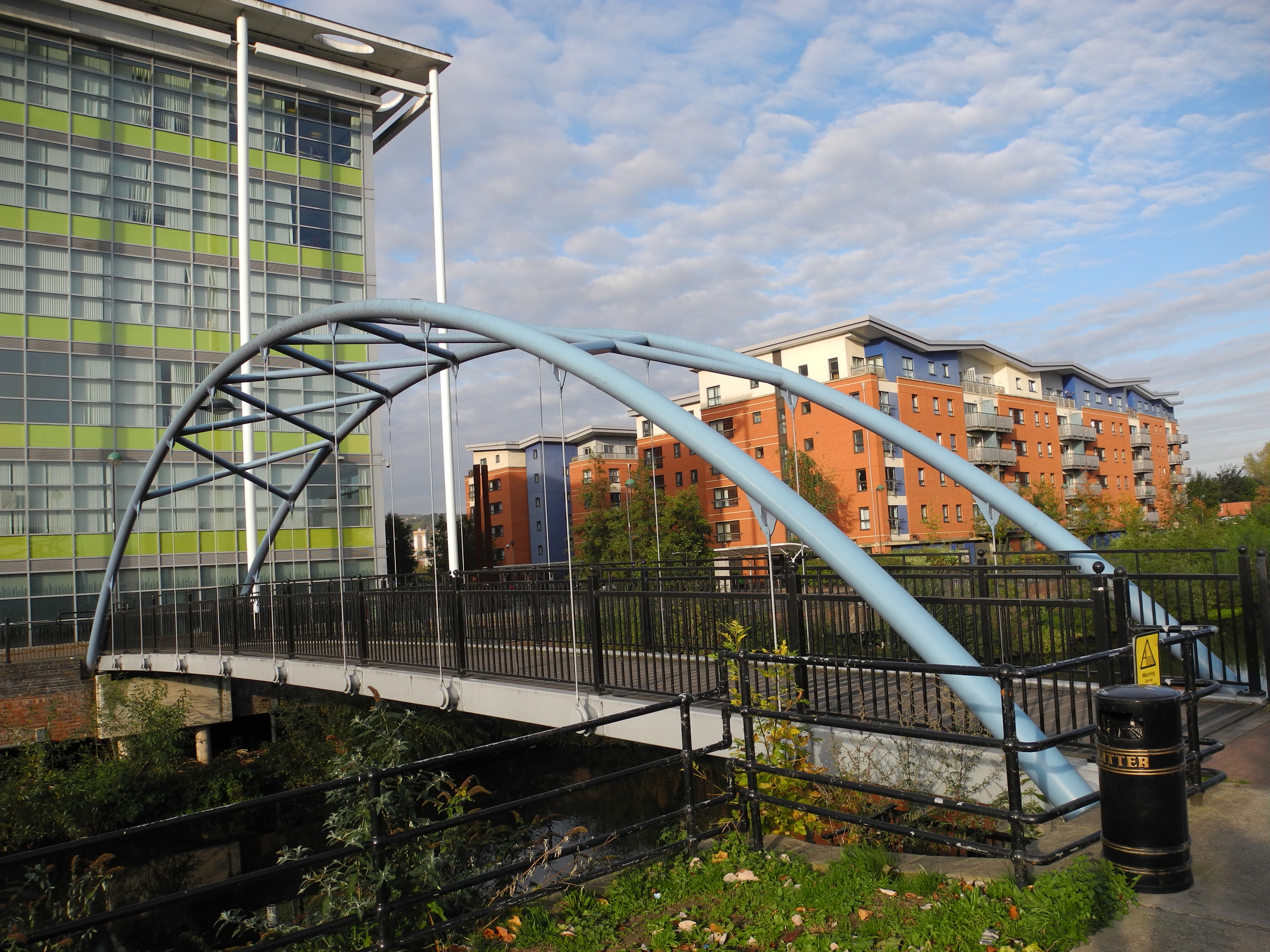 The Nursery Street footbridge in Sheffield, England